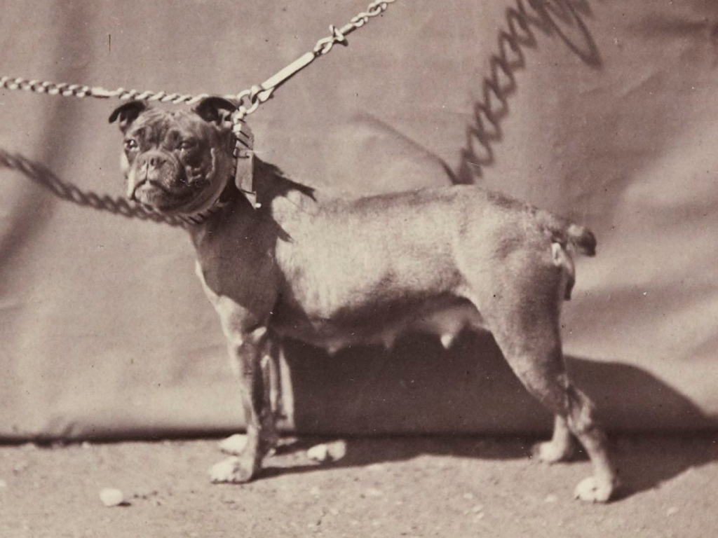 “Zoological garden of acclimatization (Bois de Boulogne). Dog show (May 1863). L. CREMIÈRE, PHOTO from the House of the Emperor, 28, rue de Laval. PARIS. _ PRIX _ 1 Category. Name: Shasp. 5 Class. Owner: Mr. McDonald. Breed: Bull-Dog. 13 ”